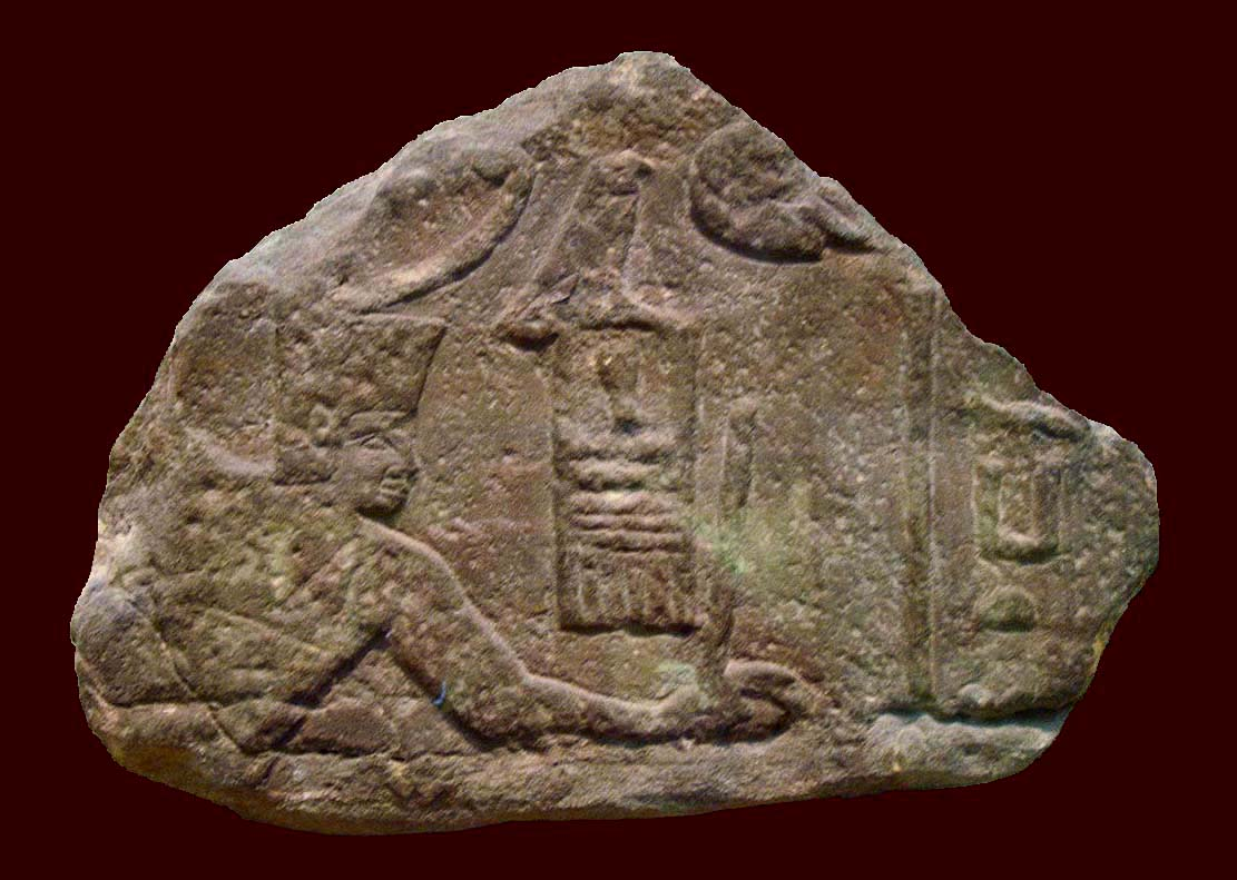 Fragment of a relief on sandstone showing the pharaoh Sanakht, wearing the red crown of Lower Egypt, smiting an asiatic of the region of the mines of Wadi Maghara, Sinai. Gifted by the Egyptian Exploration Fund in 1905 to the British Museum, No. 691 Weill, R. "Recueil des inscriptions Egyptiennes du Sinaï".